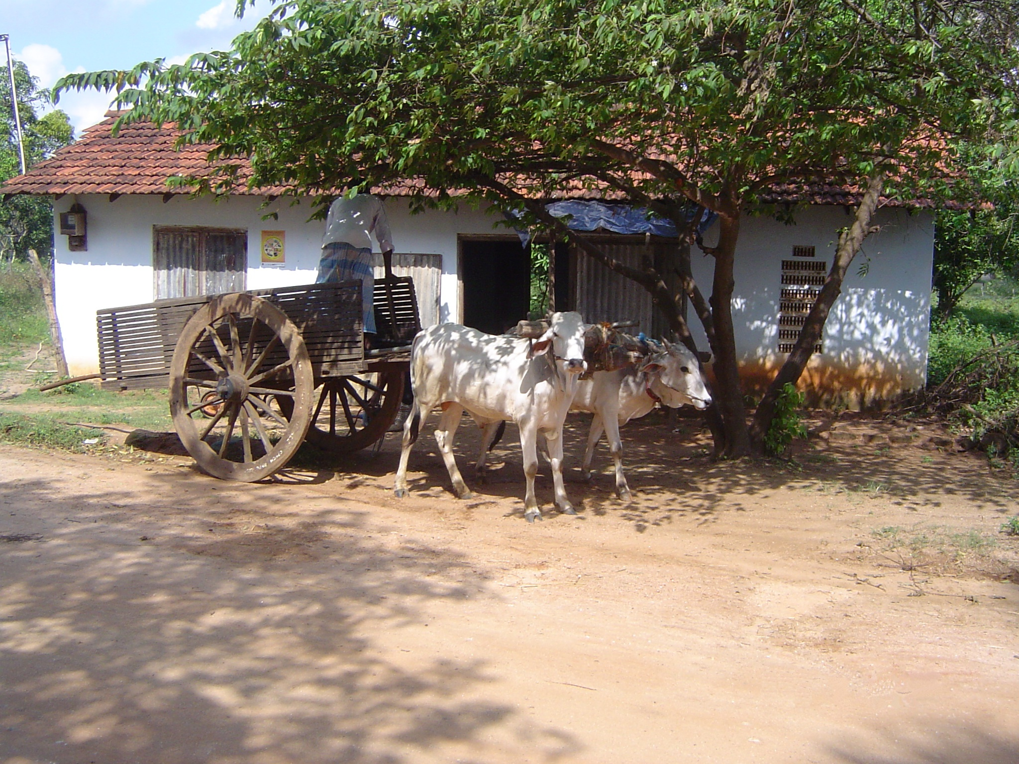 Bullockcart in Sri Lanka.